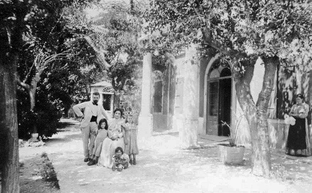 The Kircher family from their home in Trieste, circa 1903